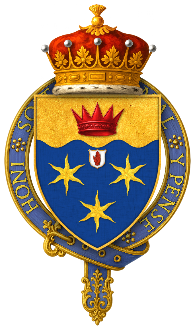 Garter encircled shield of arms of Frederick Sleigh Roberts, 1st Earl Roberts, as displayed on his Order of the Garter stall plate in St. George's Chapel.